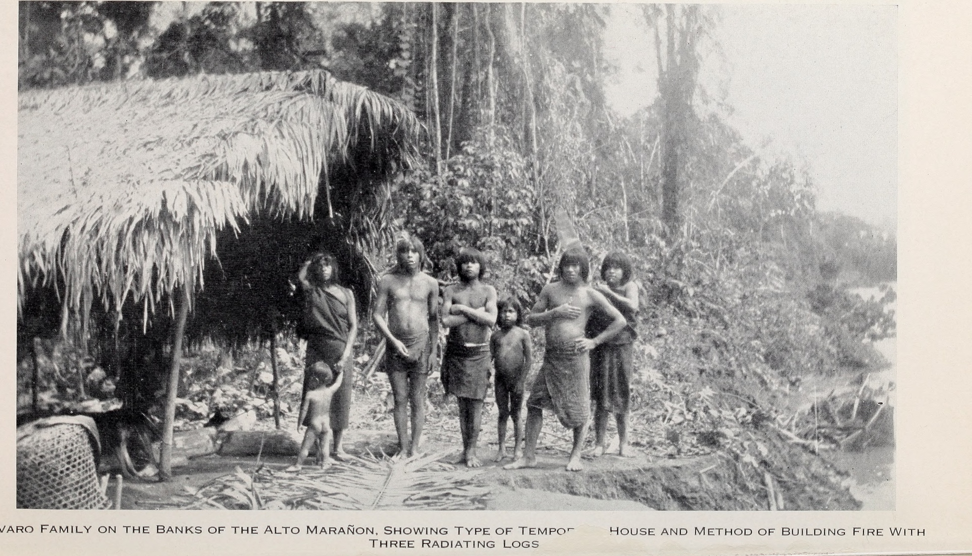 Title: Bulletin Year: 1901 (1900s) Authors: Smithsonian Institution. Bureau of American Ethnology Subjects: Ethnology Publisher: Washington : G. P. O. Text Appearing Before Image: ' Text Appearing After Image: '